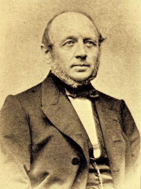 Geert Henrik Winther (1813-1905), Danish politician, MP